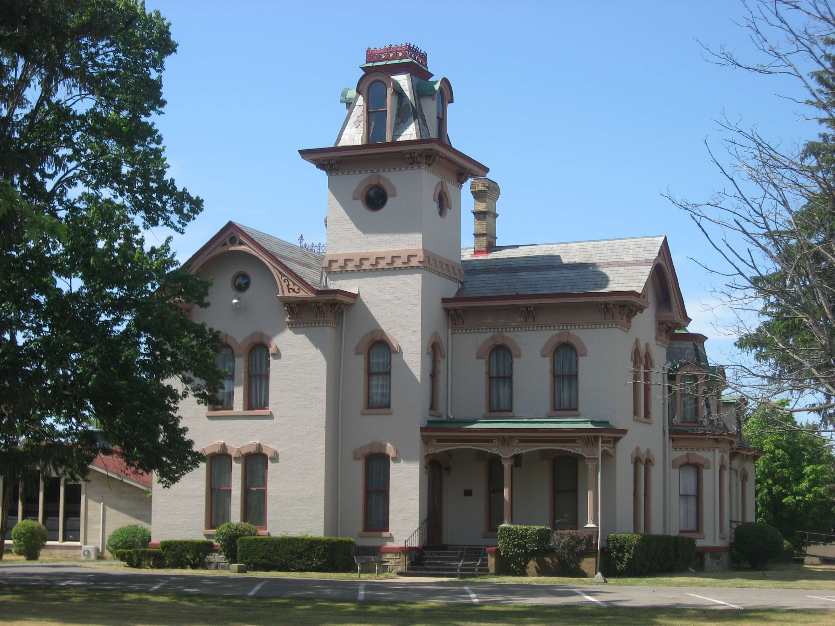 Front of the John Badlam Howe Mansion, located on Union Street on the grounds of The Howe School in Howe, Indiana, United States. Built in 1875, it is listed on the National Register of Historic Places.